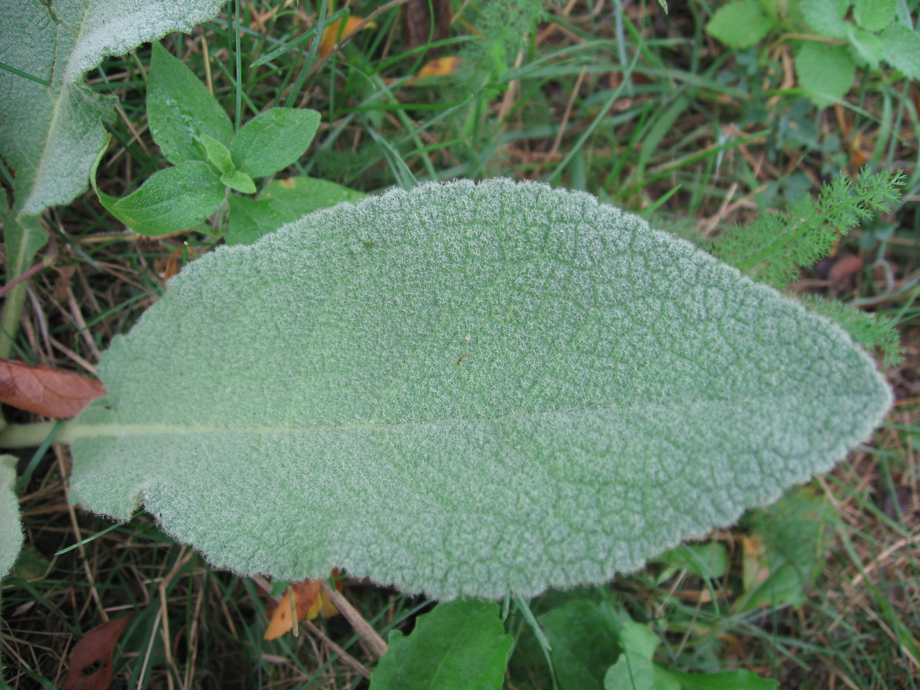 dewy Verbascum phlomoides leaf